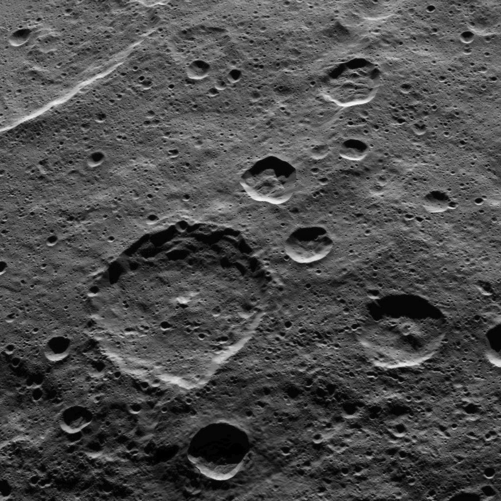 PIA20145: Dawn HAMO Image 82 Part of the southern hemisphere on dwarf planet Ceres is seen in this image taken by NASA's Dawn spacecraft. Hamori crater, named after a Japanese god and protector of tree leaves, is the large crater near the center of the image. Hamori is 37 miles (60 kilometers) in diameter. The edge of Darzamat crater is visible in the upper left. Dawn took this image on Oct. 18, 2015, from an altitude of 915 miles (1,470 kilometers). It has a resolution of 450 feet (140 meters) per pixel. Dawn's mission is managed by JPL for NASA's Science Mission Directorate in Washington. Dawn is a project of the directorate's Discovery Program, managed by NASA's Marshall Space Flight Center in Huntsville, Alabama. UCLA is responsible for overall Dawn mission science. Orbital ATK, Inc., in Dulles, Virginia, designed and built the spacecraft. The German Aerospace Center, the Max Planck Institute for Solar System Research, the Italian Space Agency and the Italian National Astrophysical Institute are international partners on the mission team. For a complete list of acknowledgments, For more information about the Dawn mission, visit